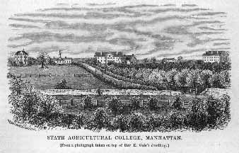 Image from "Kansas State Board of Agriculture First Biennial Report" (Rand, McNally & Co., Printers and Engravers, Chicago: 1878).